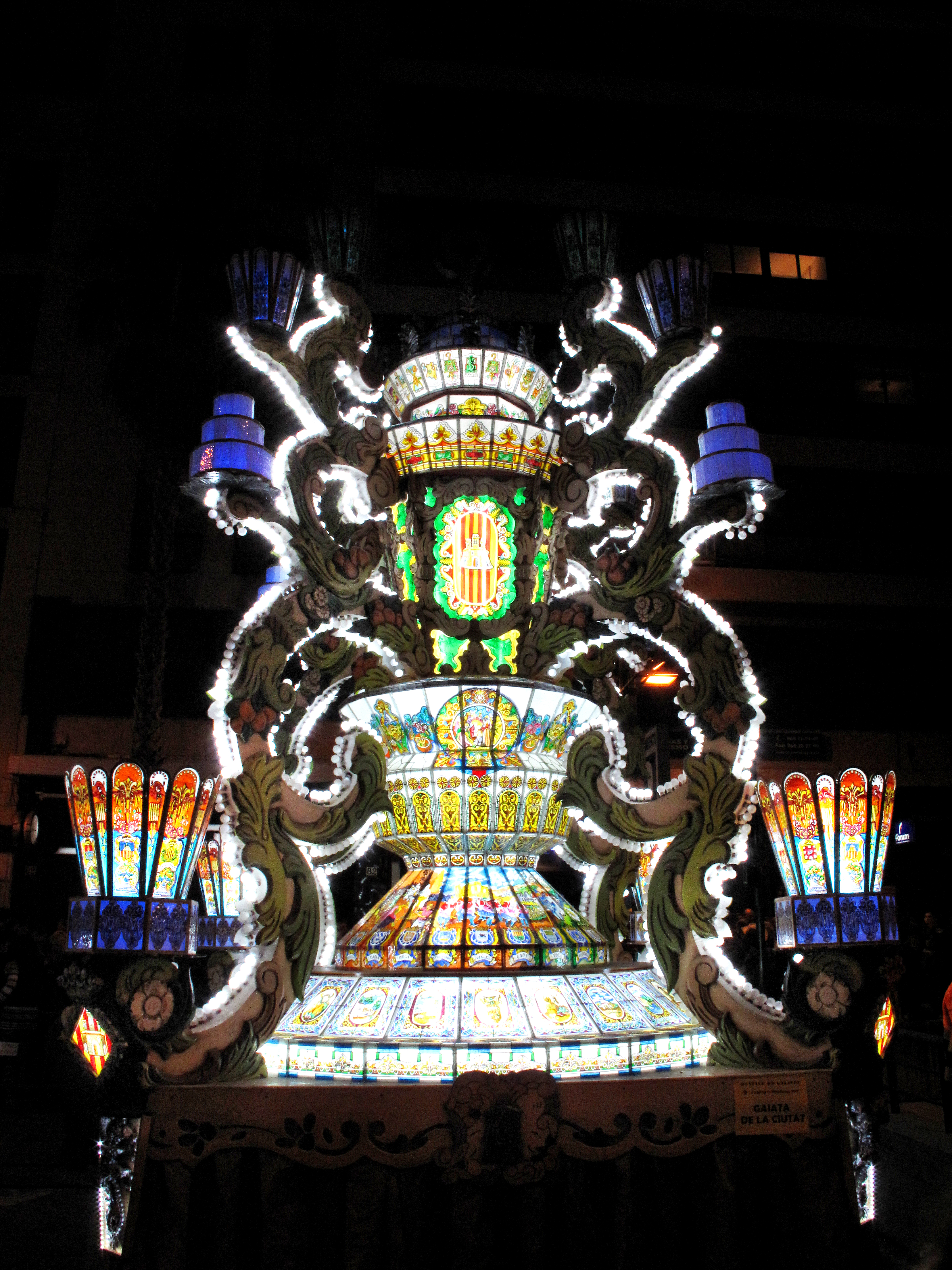 gaiata castellon 2012